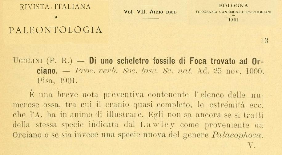 Ugolini, 1901, The Pliophoca etrusca of Orciano (Italy, Tuscany)